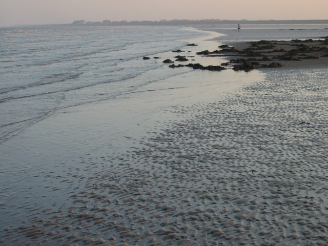 Low tide at Sandwich Bay, looking south